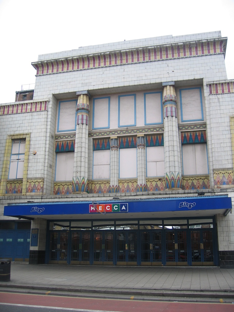 Former Mecca Bingo Hall in 2007 prior to closure, Essex Road, London N1. (Originally Carlton Cinema)